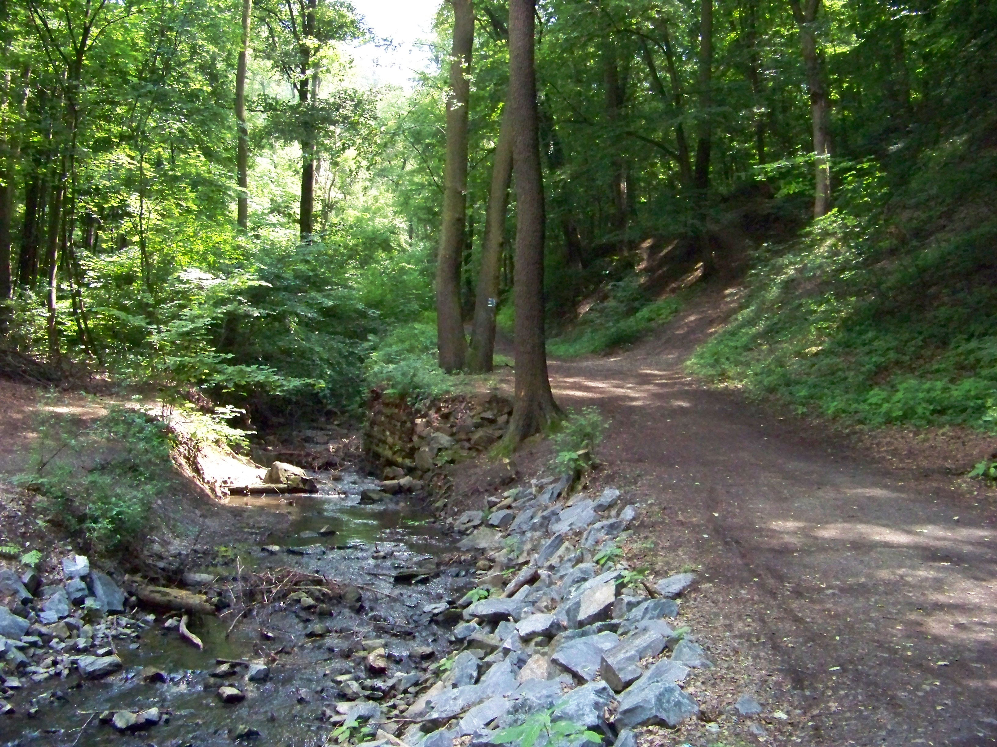 Dolní Břežany-Lhota, Prague-West District, Central Bohemian Region, the Czech Republic. Břežanský Creek, beyond the forestry zoo spot.